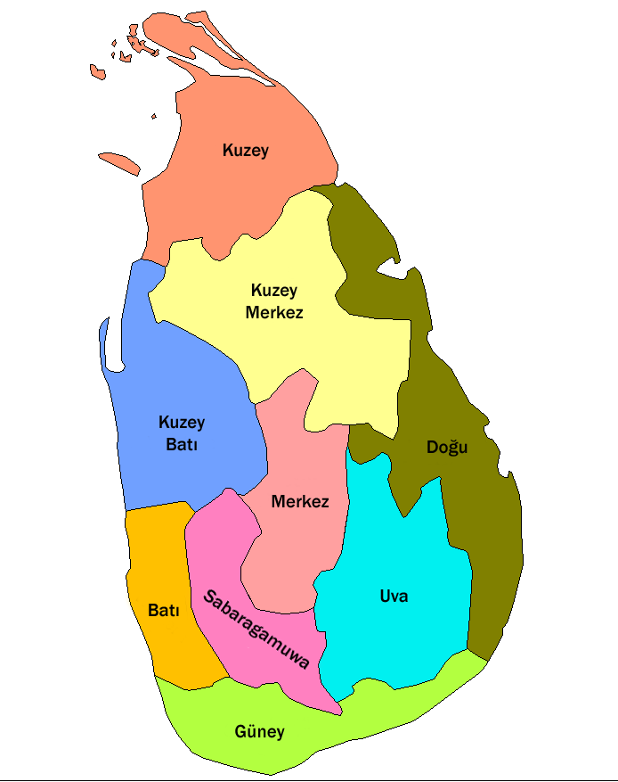 Provinces of Sri Lanka